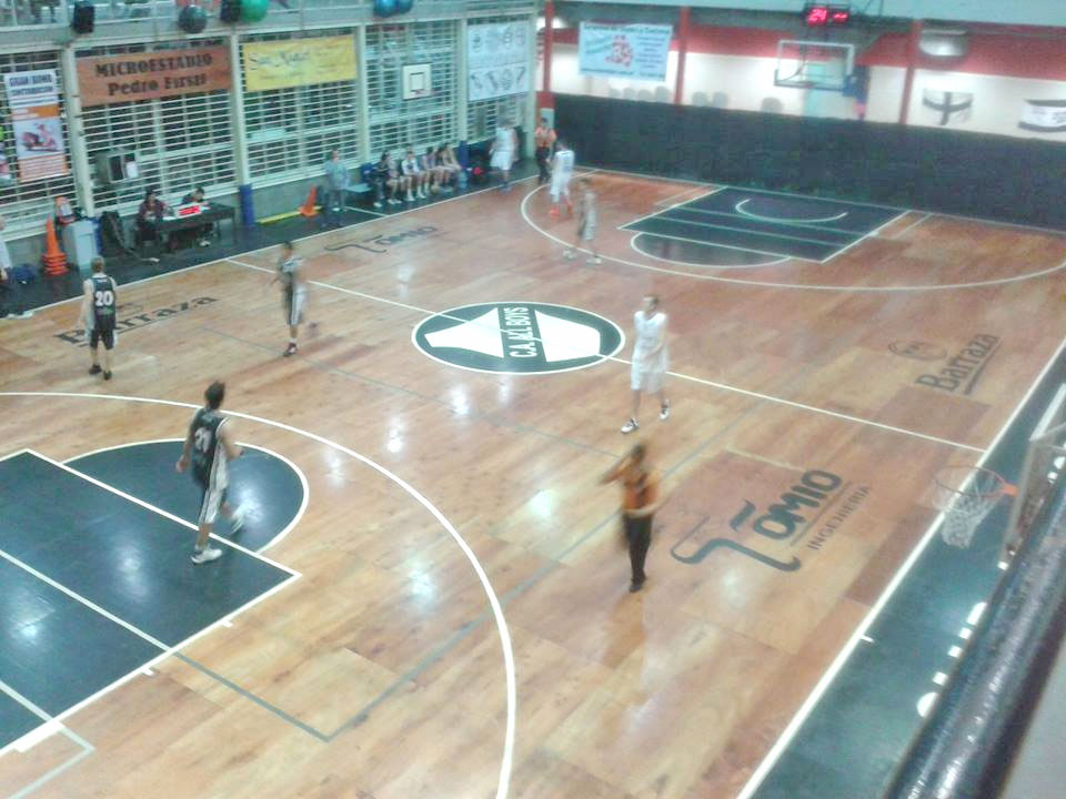 This is a photo of Pedro Firtz Microstate where various assemblies are made and where does the locally Basketball Club Atlético All Boys.